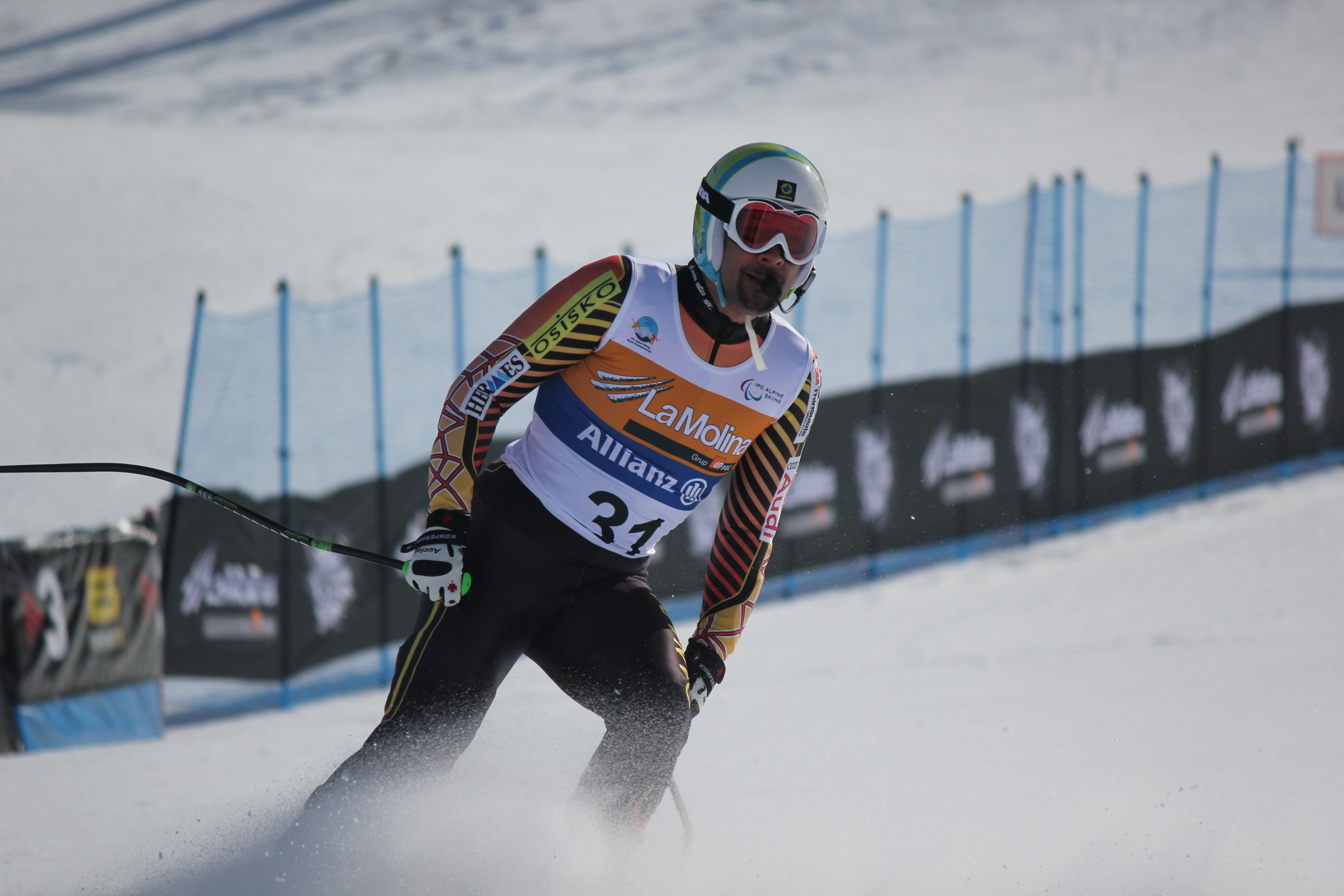 Chris Williamson of Canada. 2013 IPC Alpine World Championships at La Molina in Spain. Day 2 of competition. Super-G final.